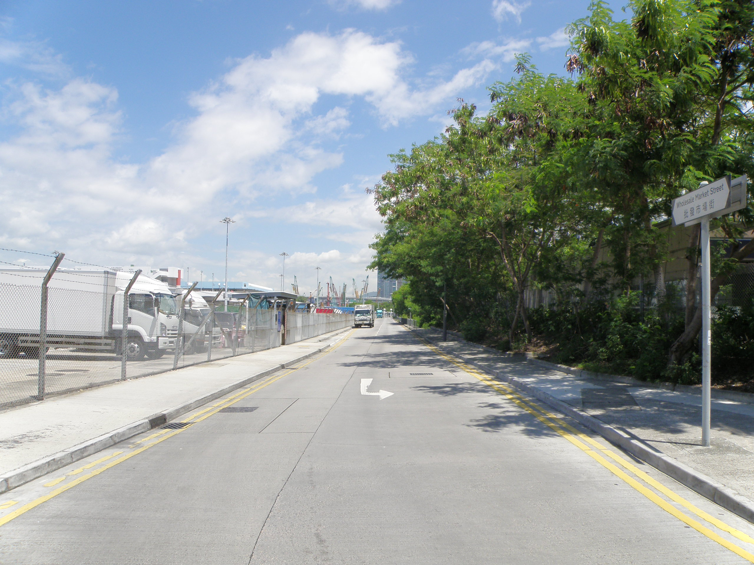 Wholesale Market Street in Nam Cheong, Hong Kong.